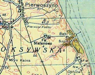 Stefanowo Farm around Gdynia on Polish Army topographic map form 1930s.